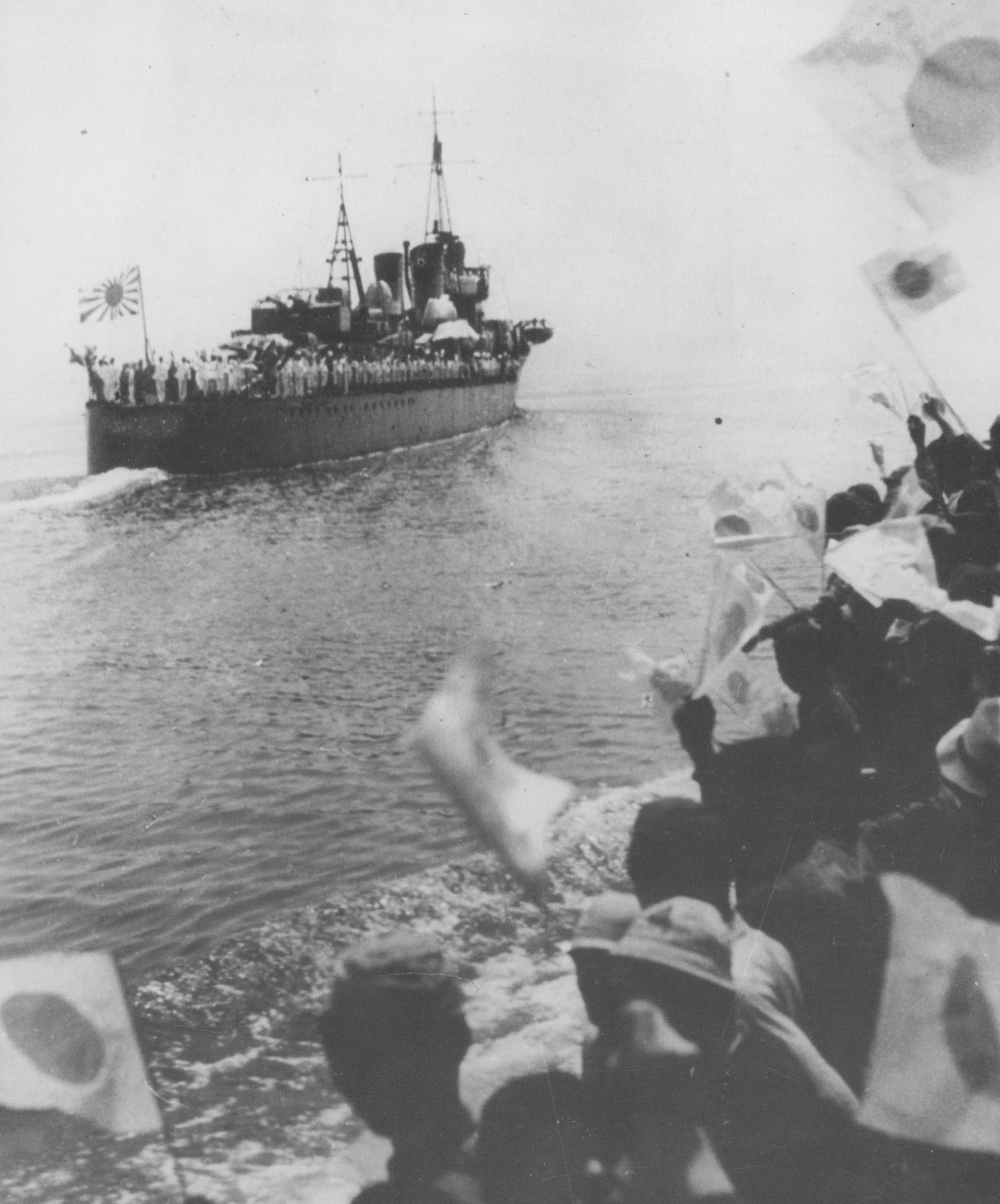 Imperial Japanese Navy destroyer Hamakaze, the second Japanese destroyer to bear that name, in a still from a Japanese propaganda film called Eighty-eight Years of the Sun.